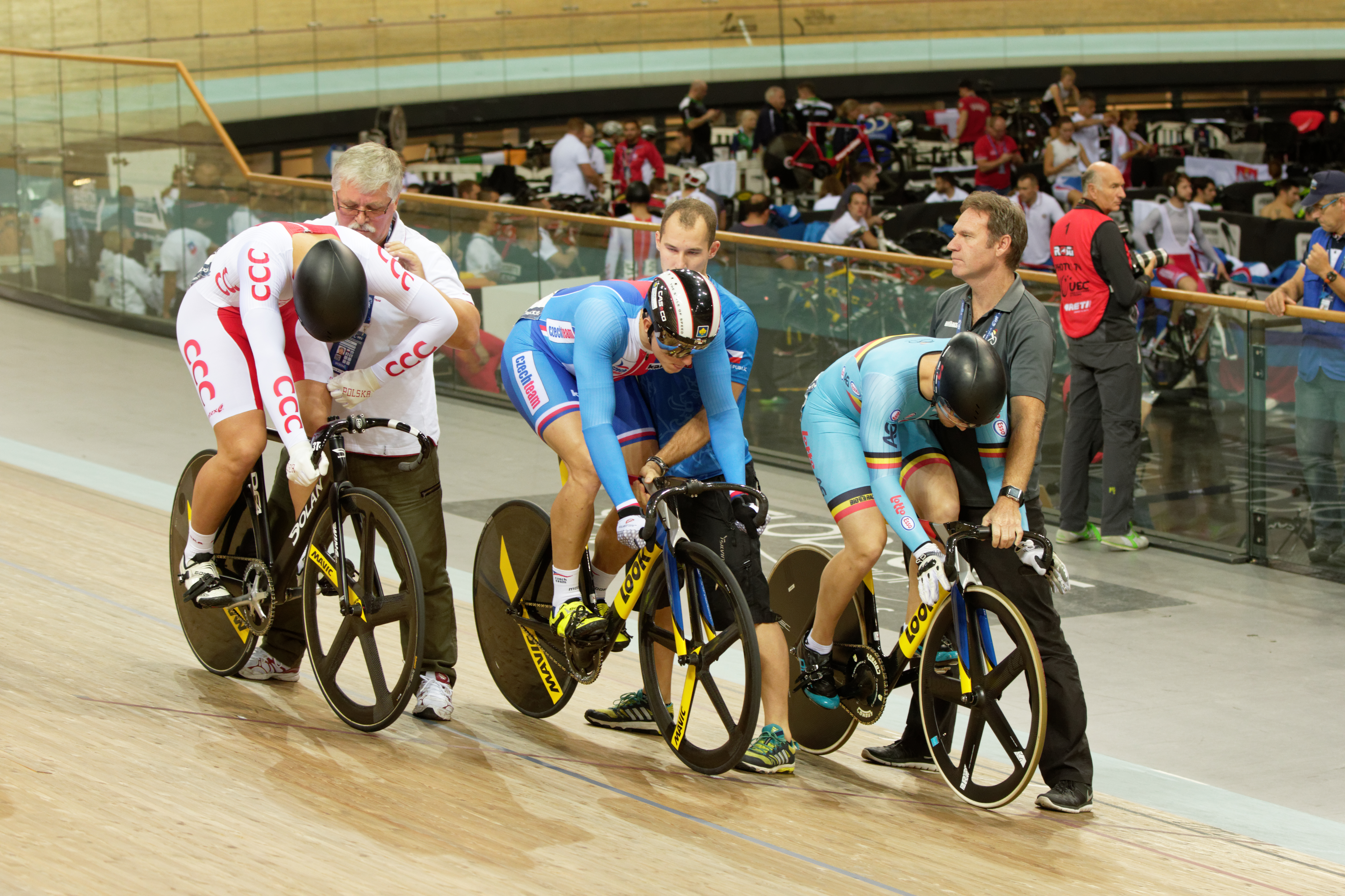 2016 UEC European Track Championships - f.l.t.r.: Patryk Rajkowski, Robin Wagner, Ayrton De Pauw, Peter Pieters (coach to the right)